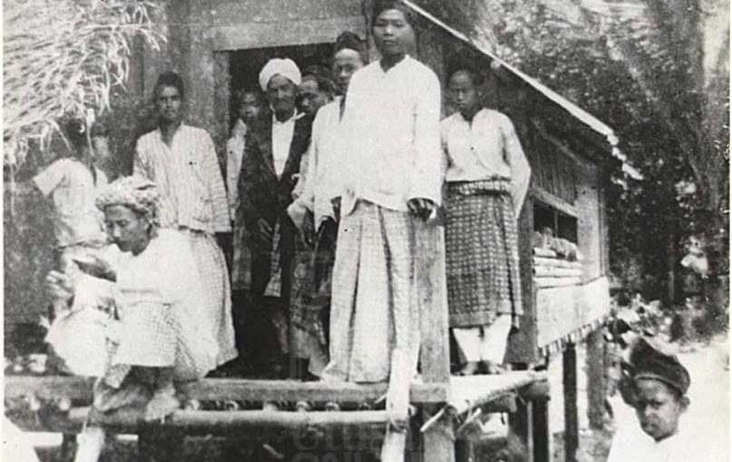 The villagers of Janda Baik standing outside the first mosque in Janda Baik in 1933. Haji Yasir (in black suit) are among the one of the three founders of Kampung Tiga Haji (present day of Janda Baik).